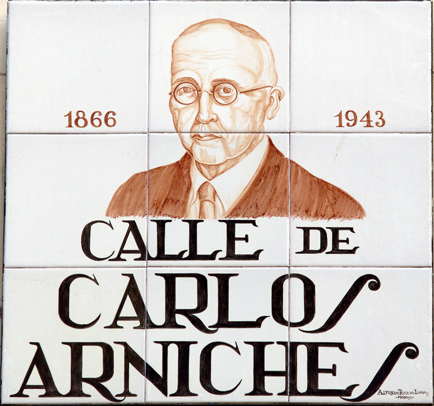 Sign of Calle de Carlos Arniches (street, Centro district) in Madrid (Spain).